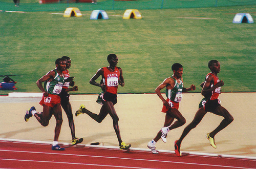 Mens 10000m sydney 2000 olympics Haile Gebrselassie